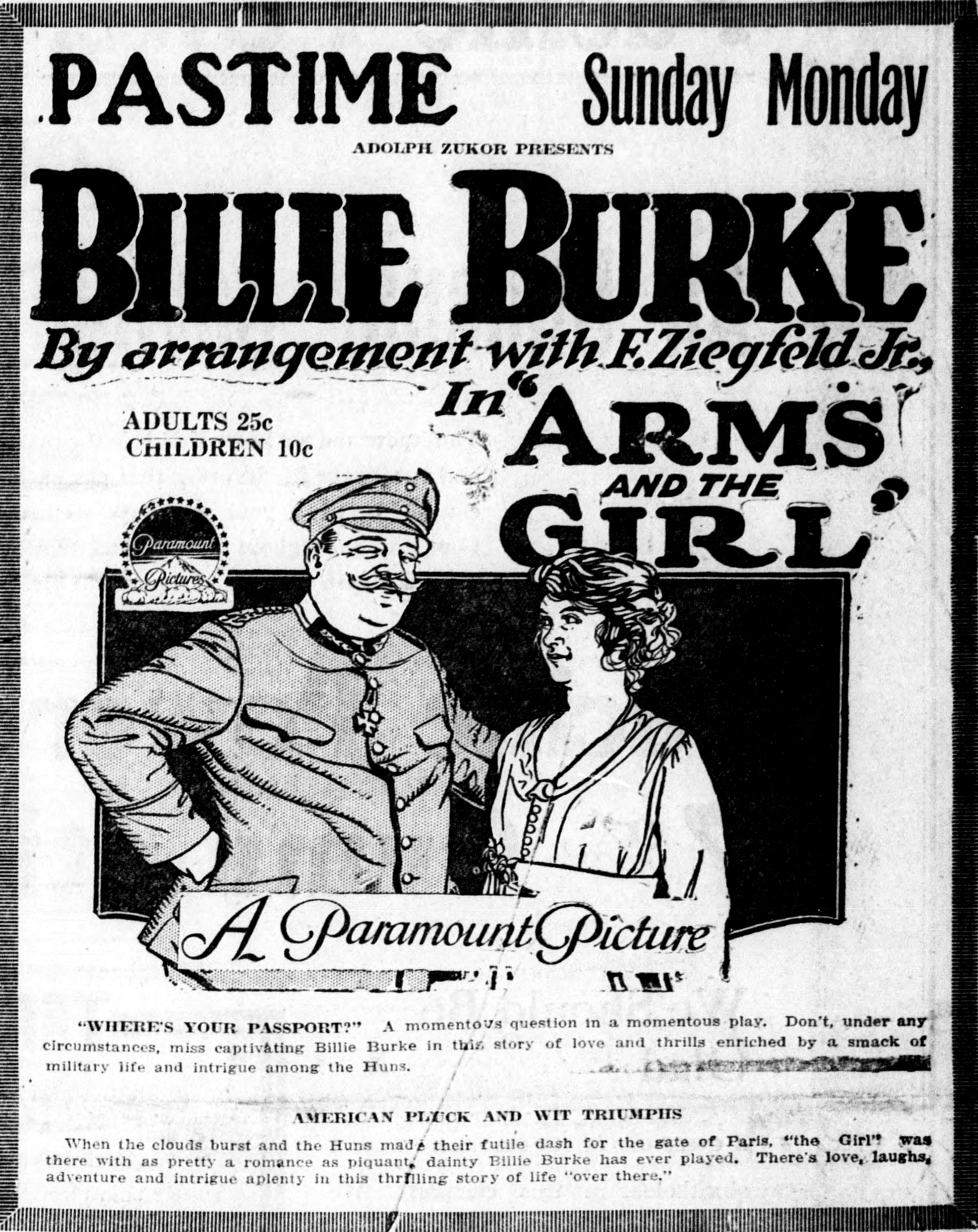 Arms and the Girl is a 1917 silent film drama produced by Famous Players-Lasky and distributed by Paramount Pictures. This is a newspaper advert for the film.